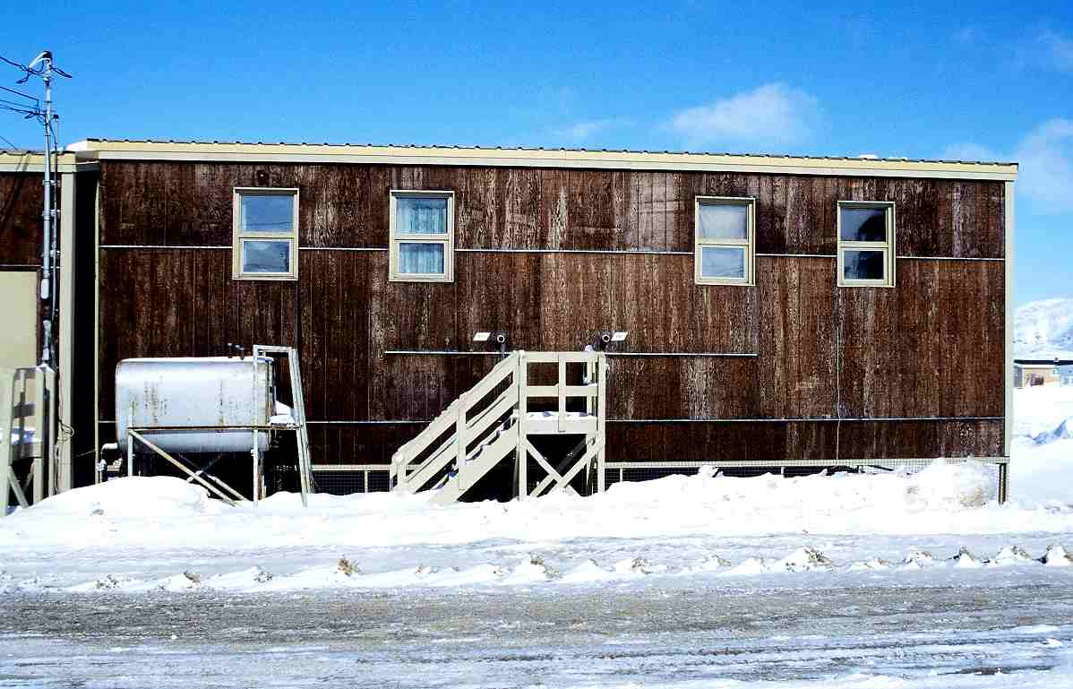 House in Cape Dorset, Nunavut, Canada / Oil tank and water connecting pieces